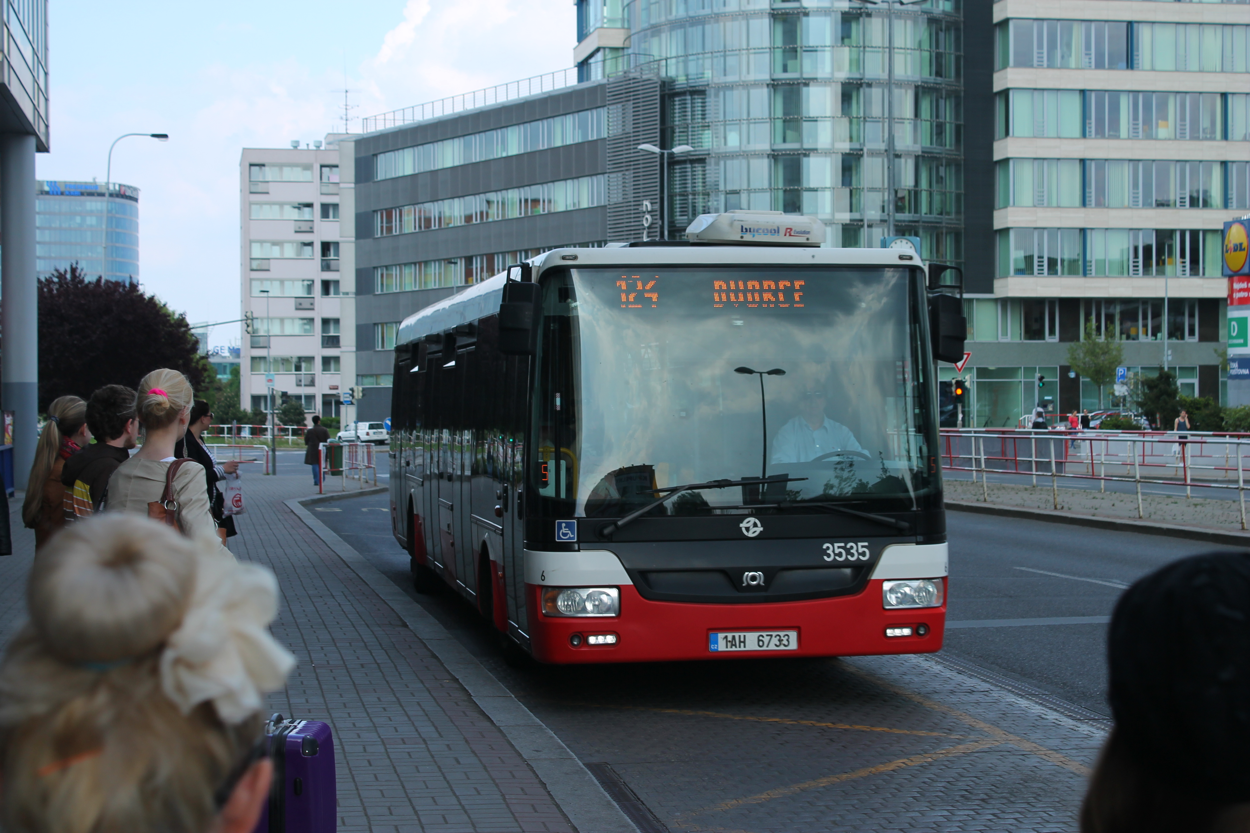 Bus SOR NB 12, number 3535, line 124, Budějovická stop, Prague